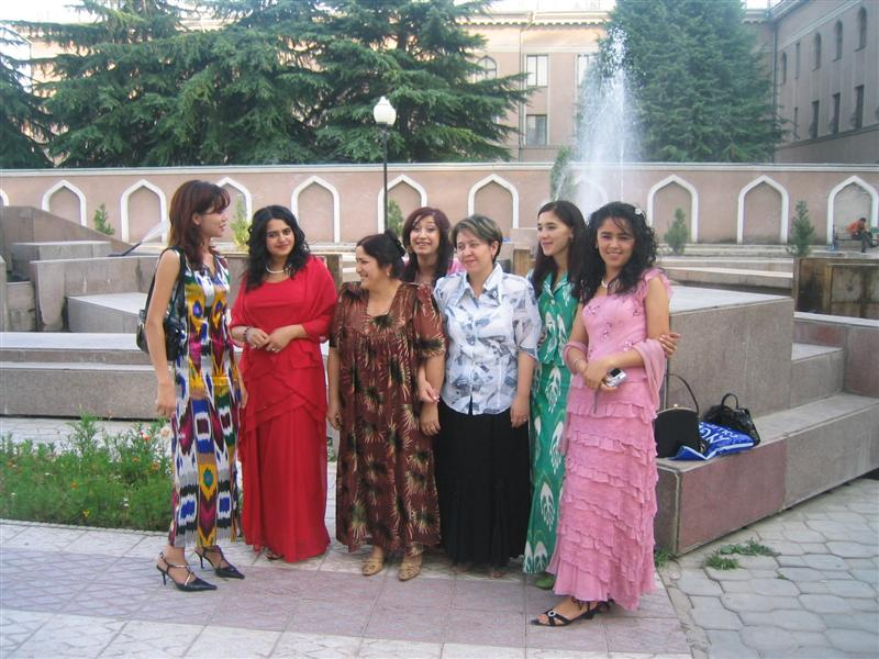 At a wedding party in Dushanbe